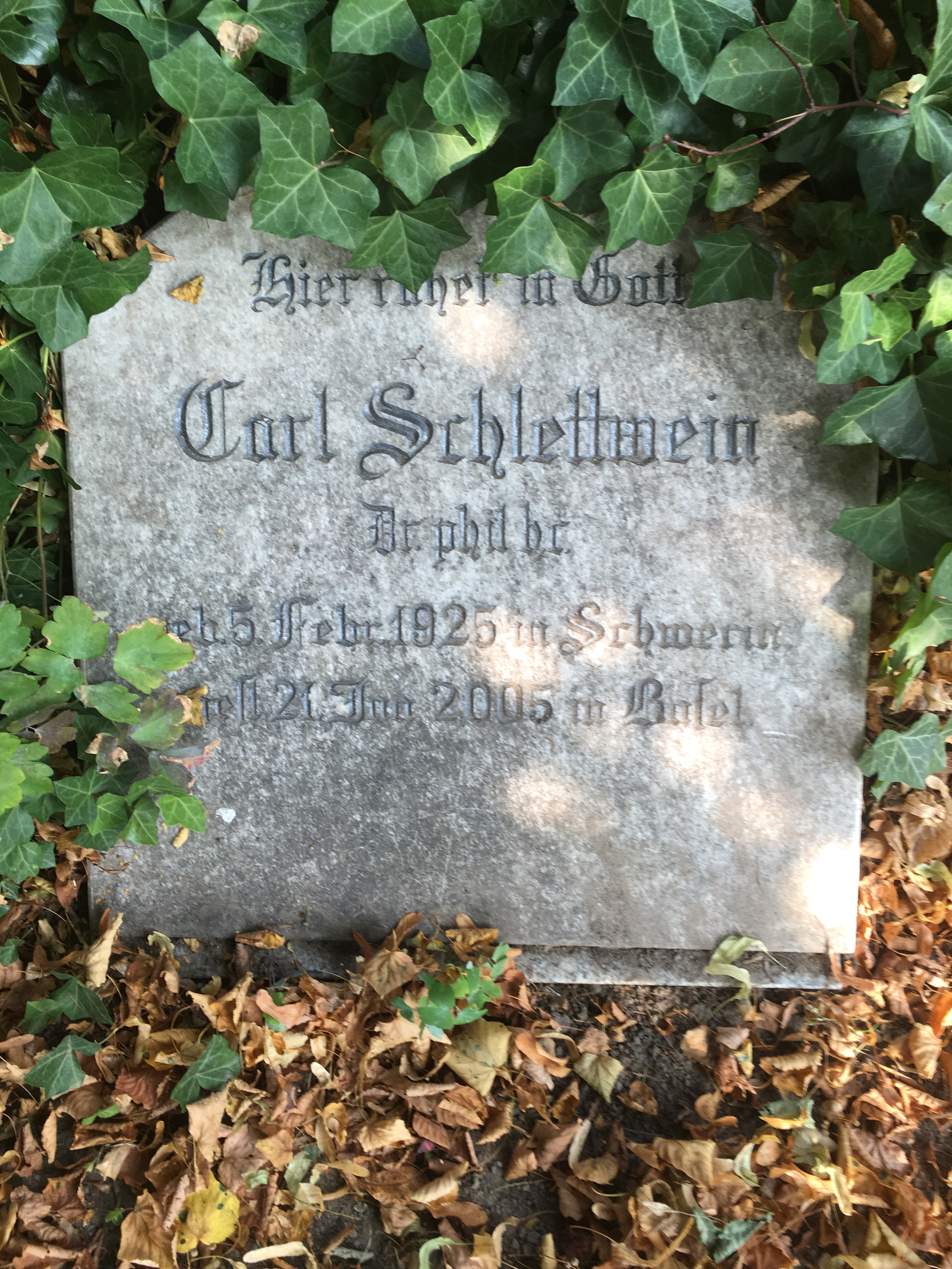 Burial of the Schlettwein family on the churchyard of the church in Petschow.